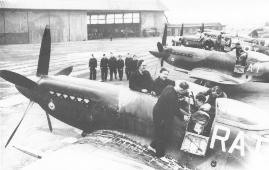 No. 613 Squadron Spitfire F.14's at RAF Ringway